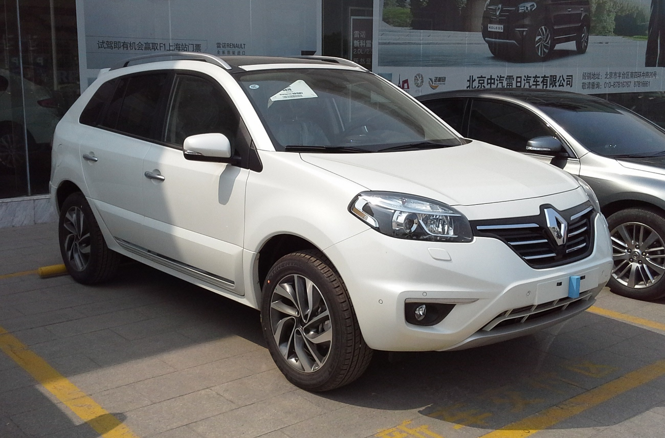 Renault Koleos facelift II photographed in Beijing, China.